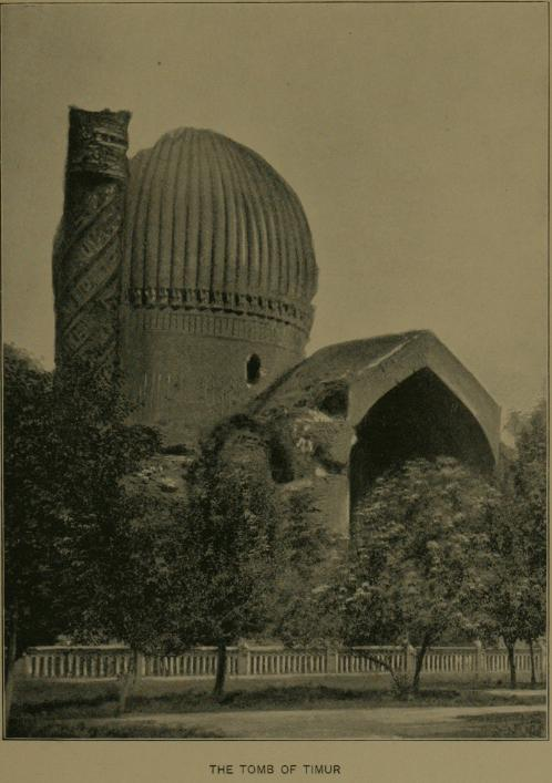 The tomb of Timur